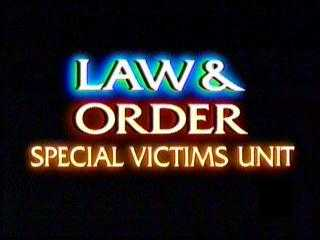 Titlecard for Law and Order: Special Victims Unit